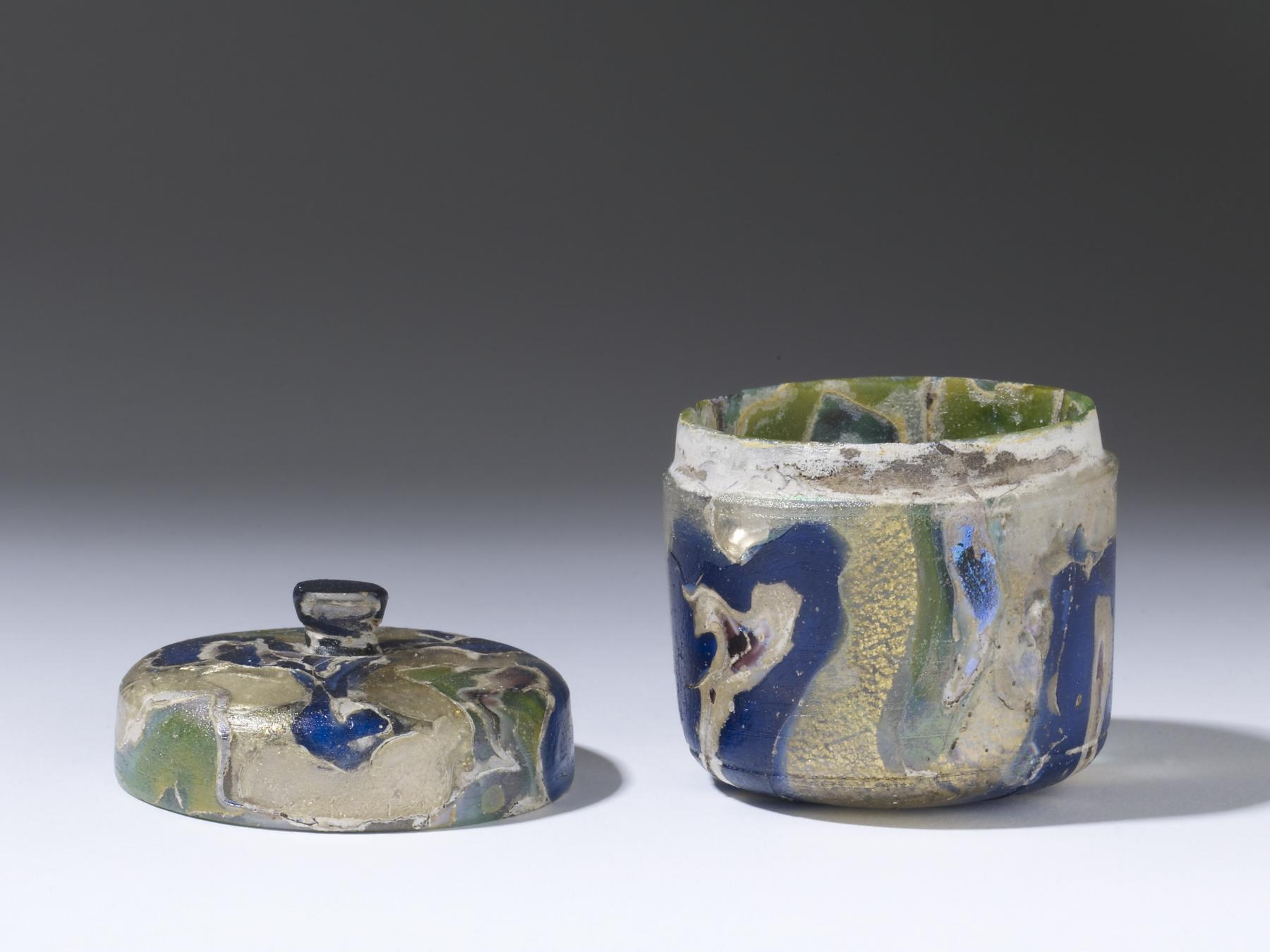 This pyxis, or cylindrical box, is an exquisite example of Roman luxury glassware, used to hold cosmetics or precious jewelry.